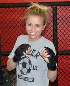 Paige VanZant before her first amateur fight in Reno, Nevada in 2012.